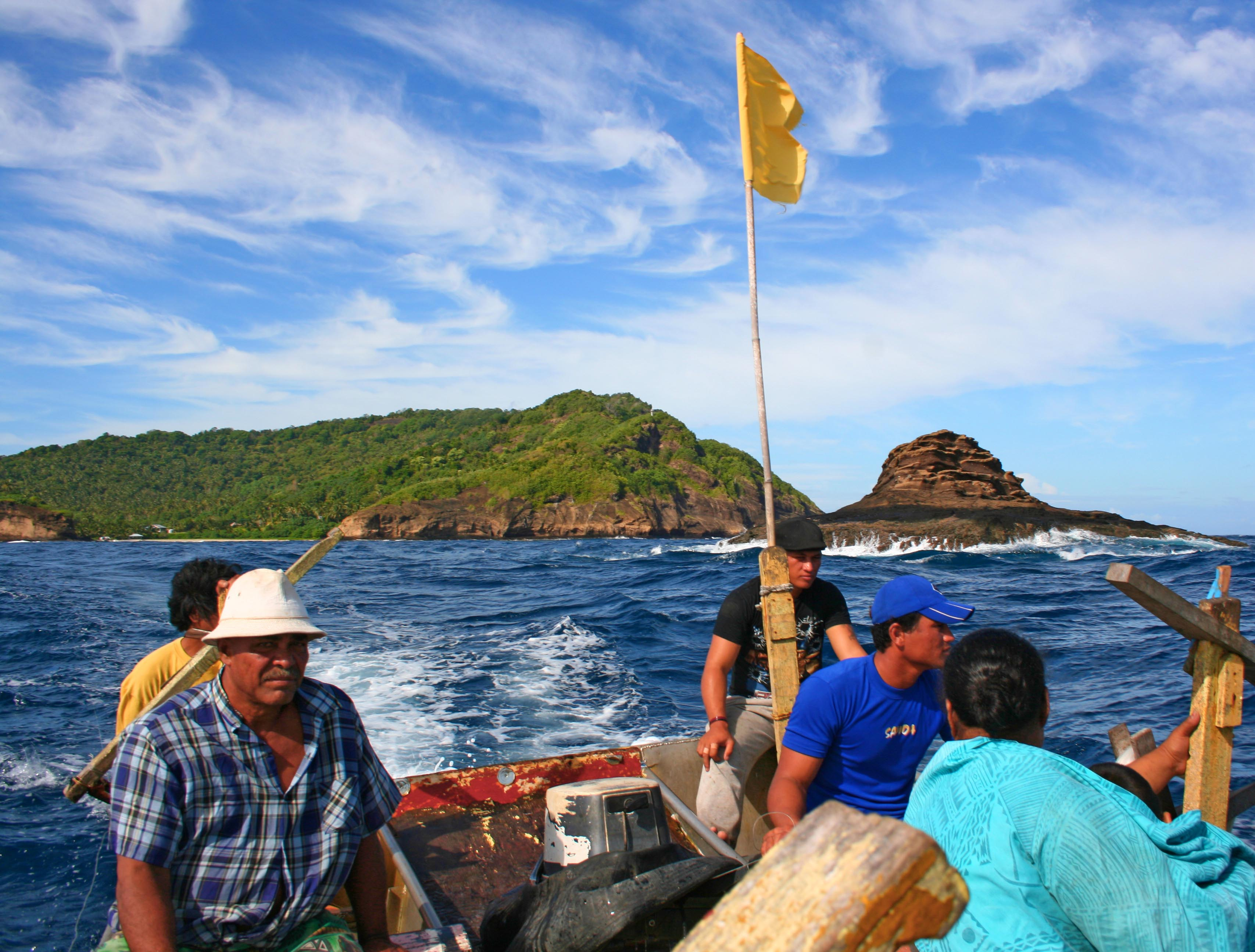 Boat leaving Apolima island in the background, Apolima Strait in Samoa.